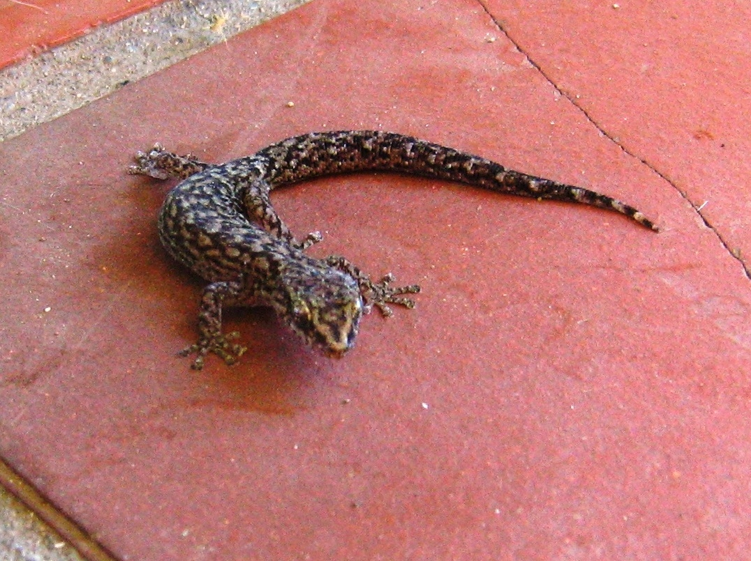 Afrogecko porphyreus or the Marbled Leaf-toed Gecko. Photo taken in Cape Town suburb.